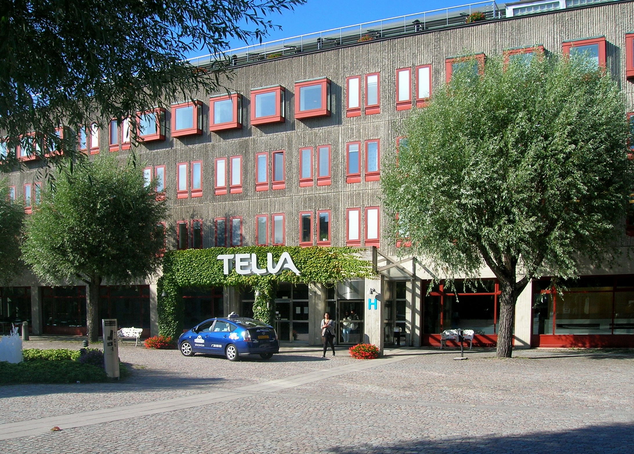 Teliasonera Sverige has its Swedish headquarters in this building at Mårbackagatan in Larsboda, Stockholm. The building was erected 1966.